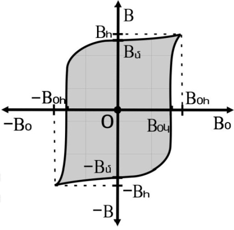 Կոշտ պարամագնետիկների հիսթերիզիսի գրաֆիկ